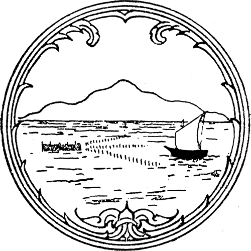 Provincial seal of Trat province.